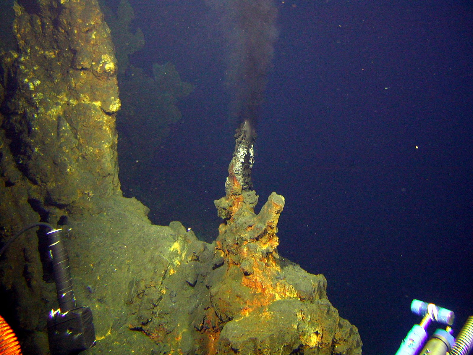 Metal rich high-temperature venting on the northwest caldera wall of Brothers Volcano produces these black smoker chimneys. New Zealand, Kermadec Arc.